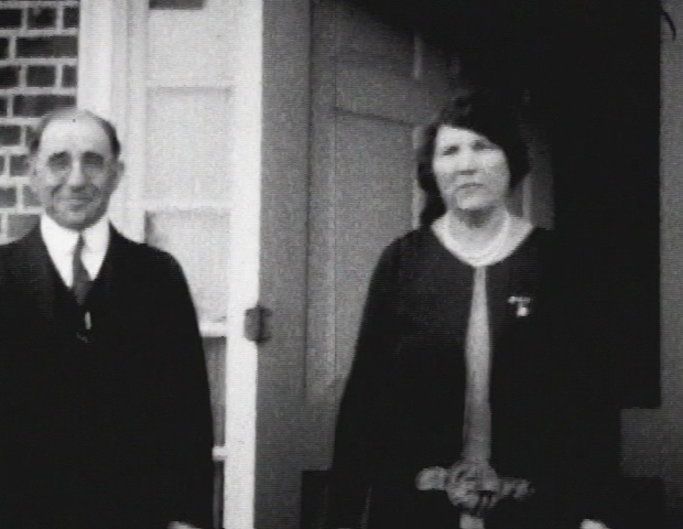 Isaac Gilman stands with his wife. Her name and the date of this photo are unknown.